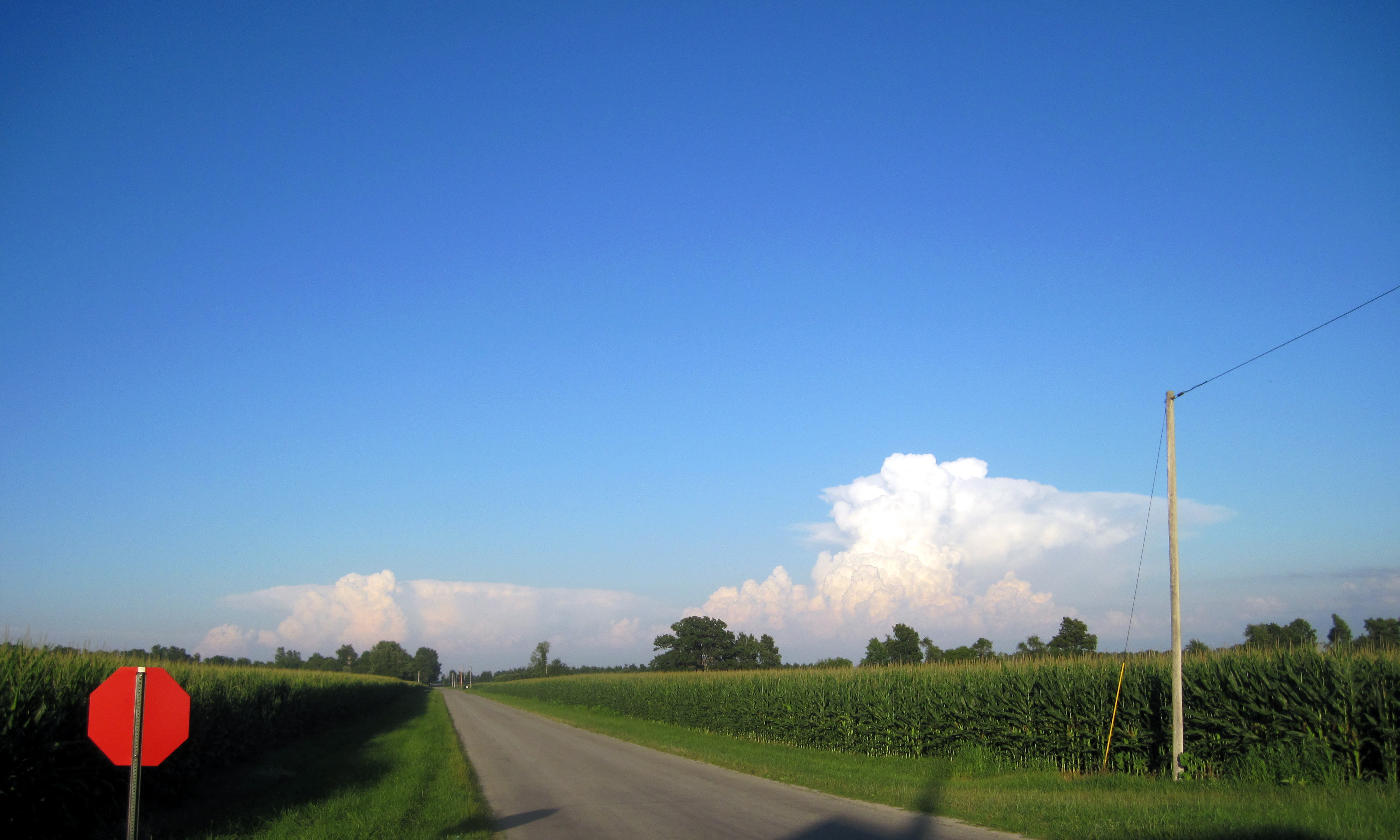 Inlet, Ohio, Chesterfield Township. Looking east down County Road N from County Road 16